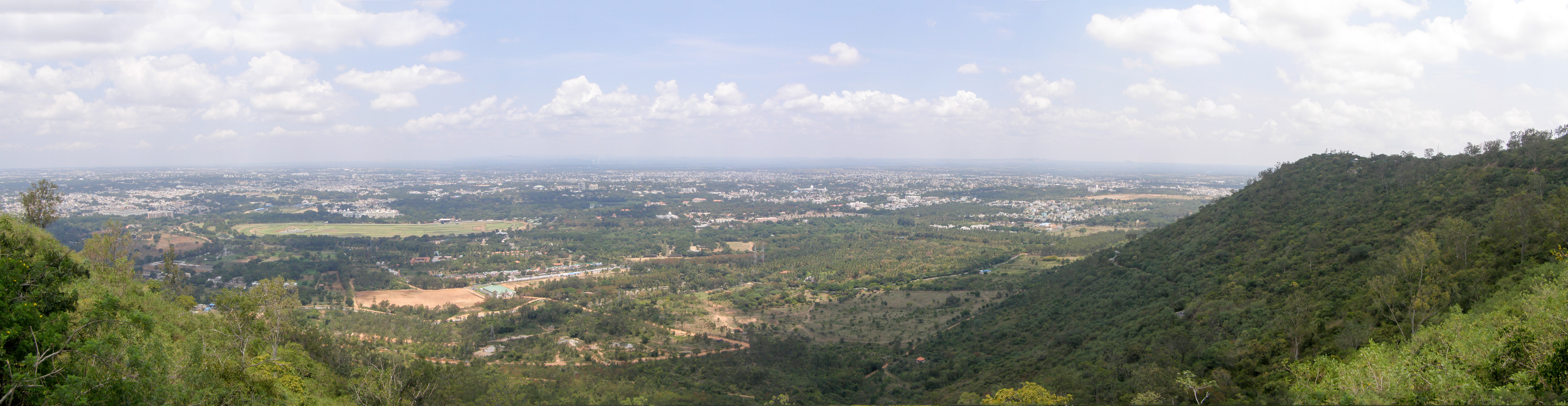 Panoramic view of Mysore city from Chamundi Hill - Karnataka state - India